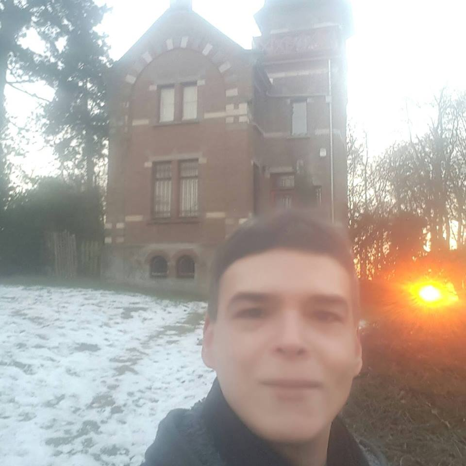 MARCELO MORAES CAETANO